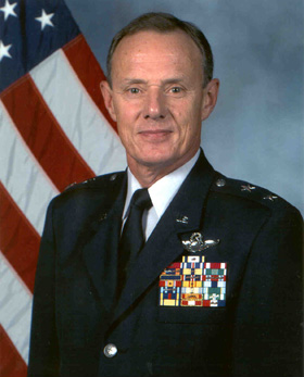 Major General Philip G. Killey